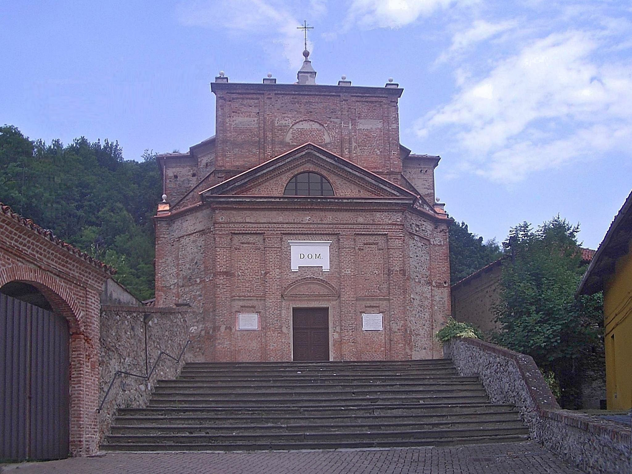 Baldissero Canavese, the parish church dedicate to St. Martin